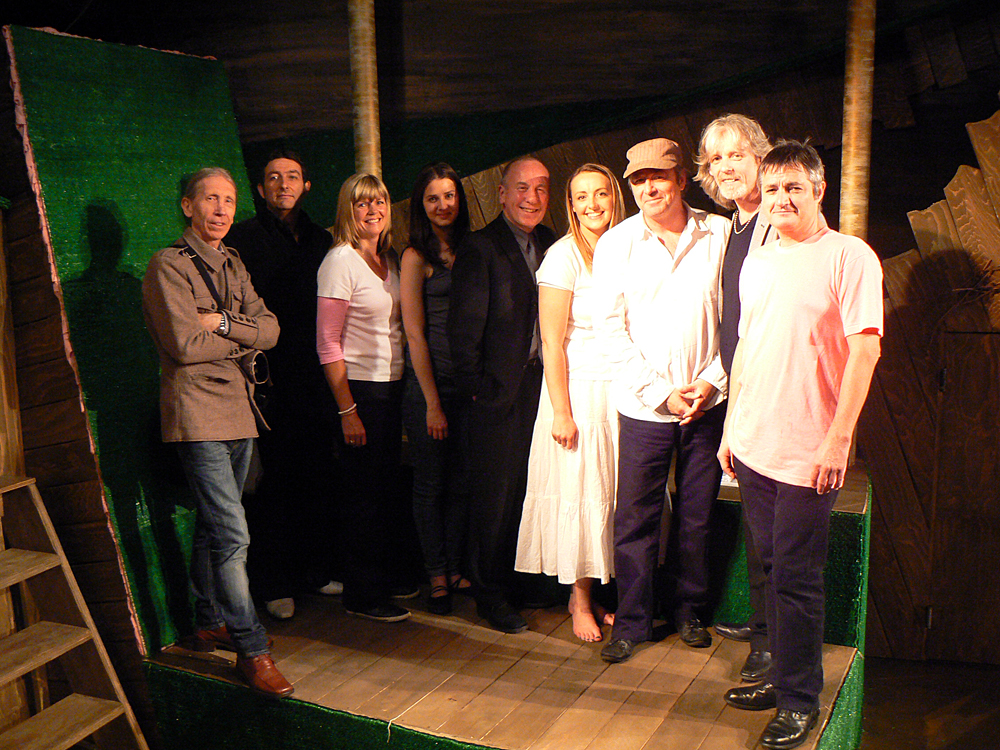 The cast of Bullets & Daffodils at The Jermyn Street Theatre, on Sunday 29 July 2012. Left to right: Illy Hill (director), Paulo Hewitt, Lindsay Field, Chloe Torpey (Susan Owen), Christopher Timothy, Charlotte Roberts, Dean Johnson, Graeme Clark (Wet Wet Wet), Gavin Martin.